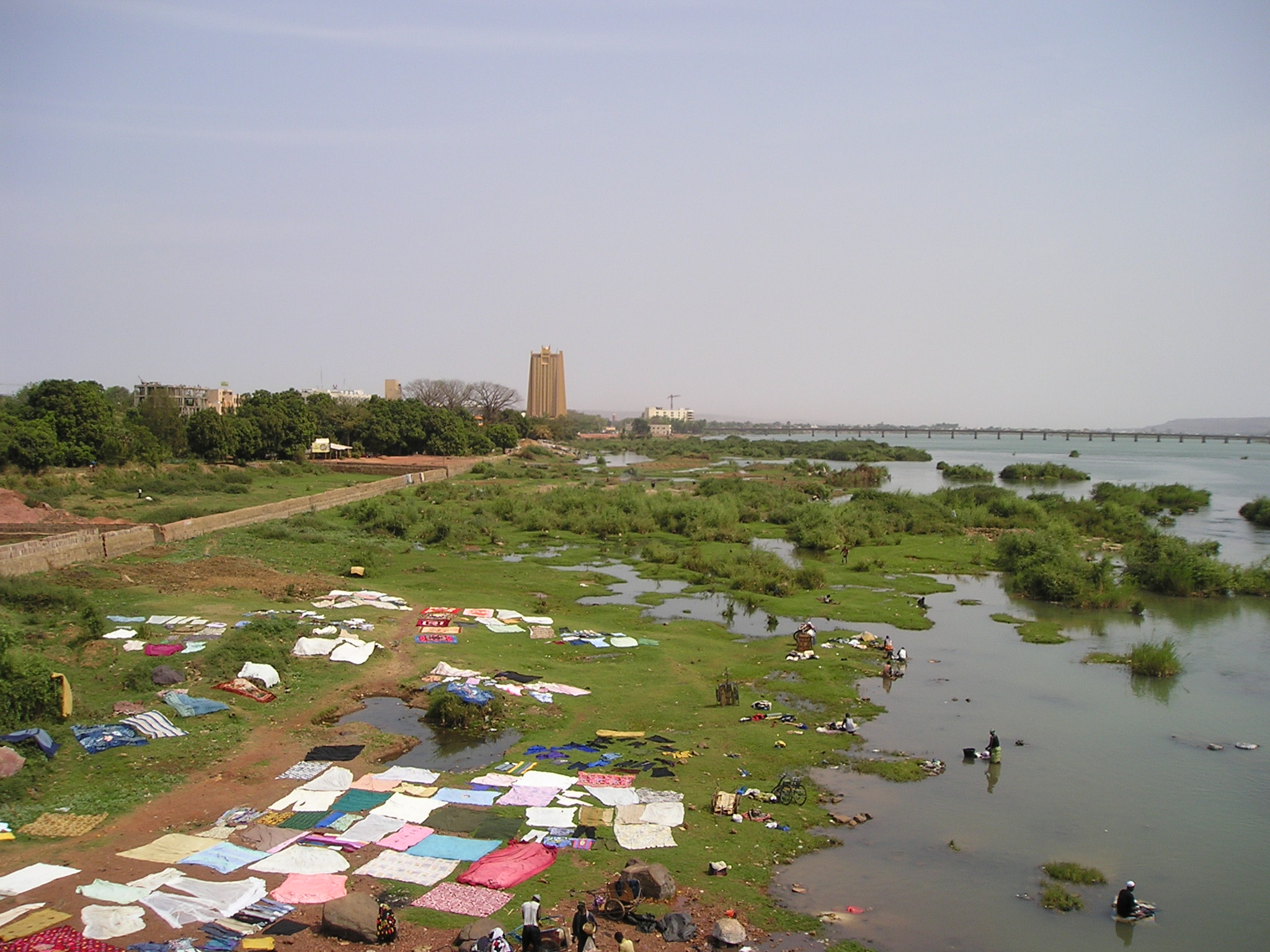 Picture taken by Didier Coeurnelle in 2006. The river Niger in Bamako (Mali).